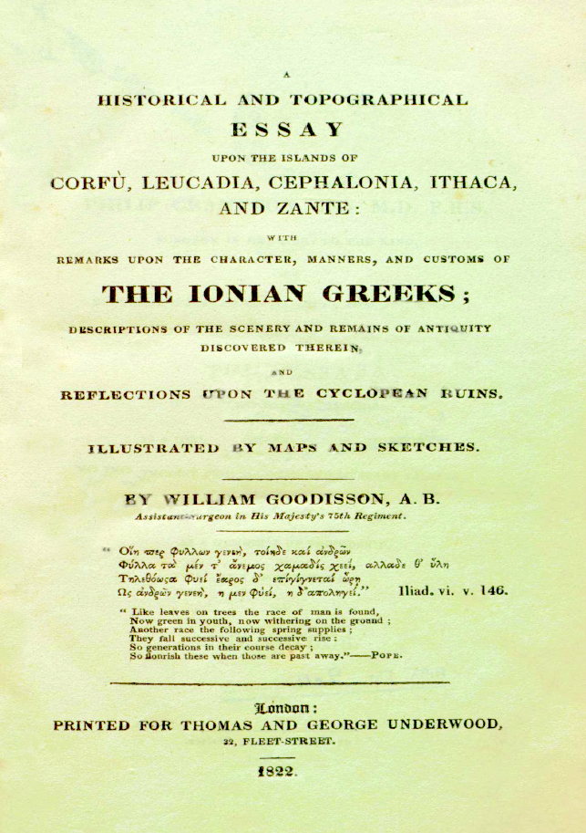 The cover page of a book by William Goodison about the Ionian Islands, London 1822